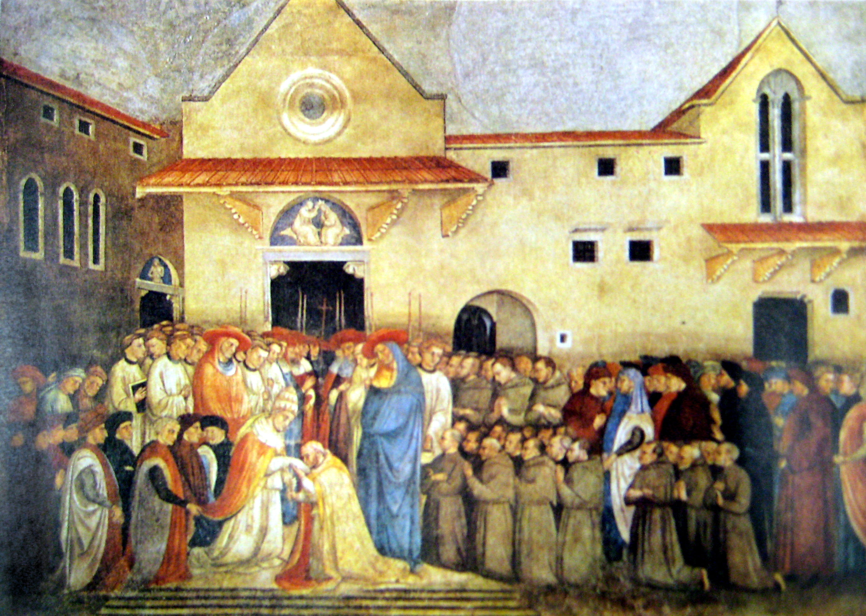 Santa Maria Nuova (Florence)